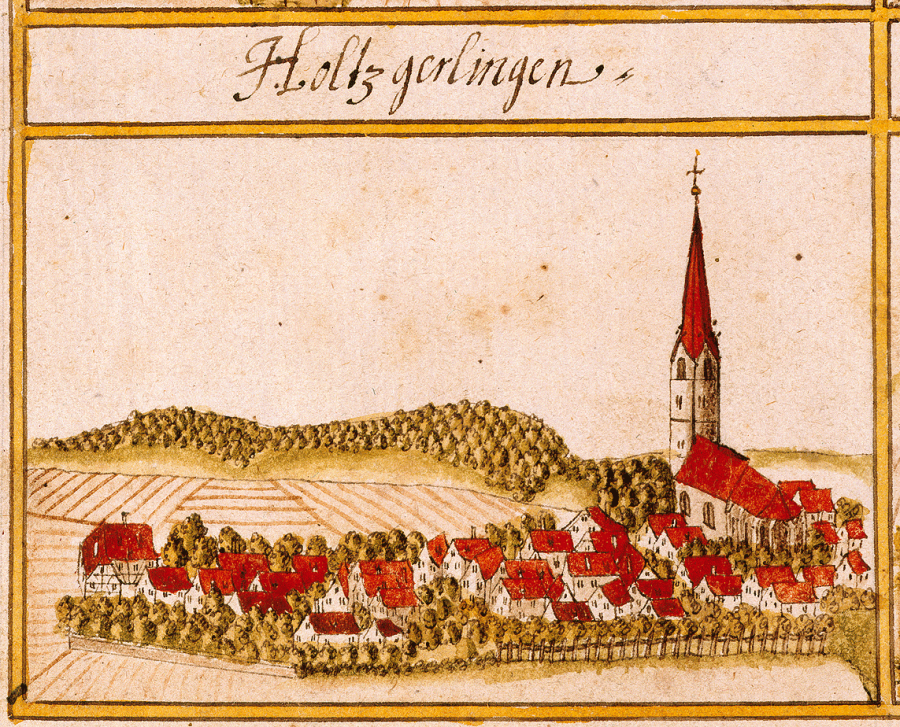 View of Holzgerlingen from the forest register books created by Andreas Kieser